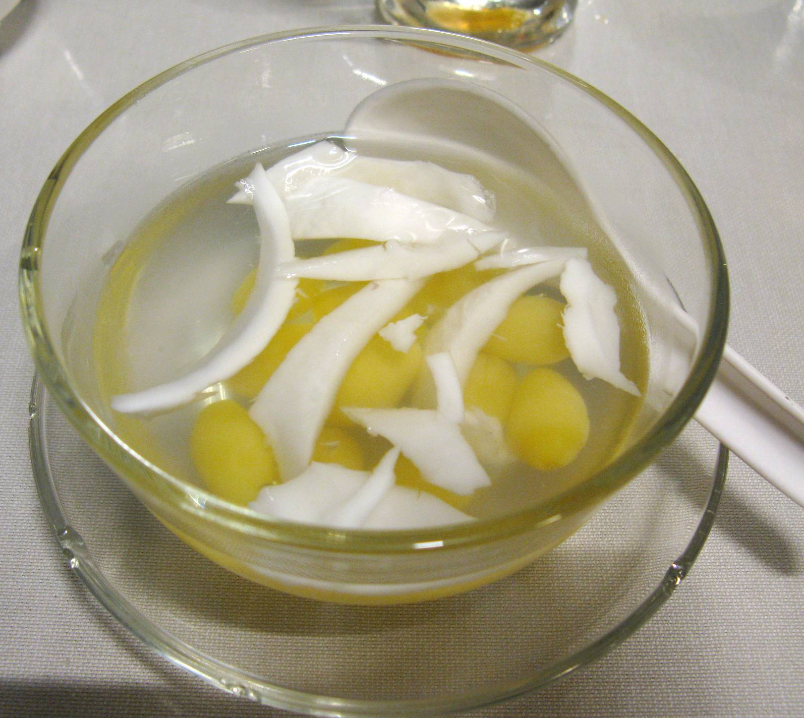 Ginkgo Biloba seeds and coconut flesh in a light syrup served as a dessert in Bangkok, Thailand.